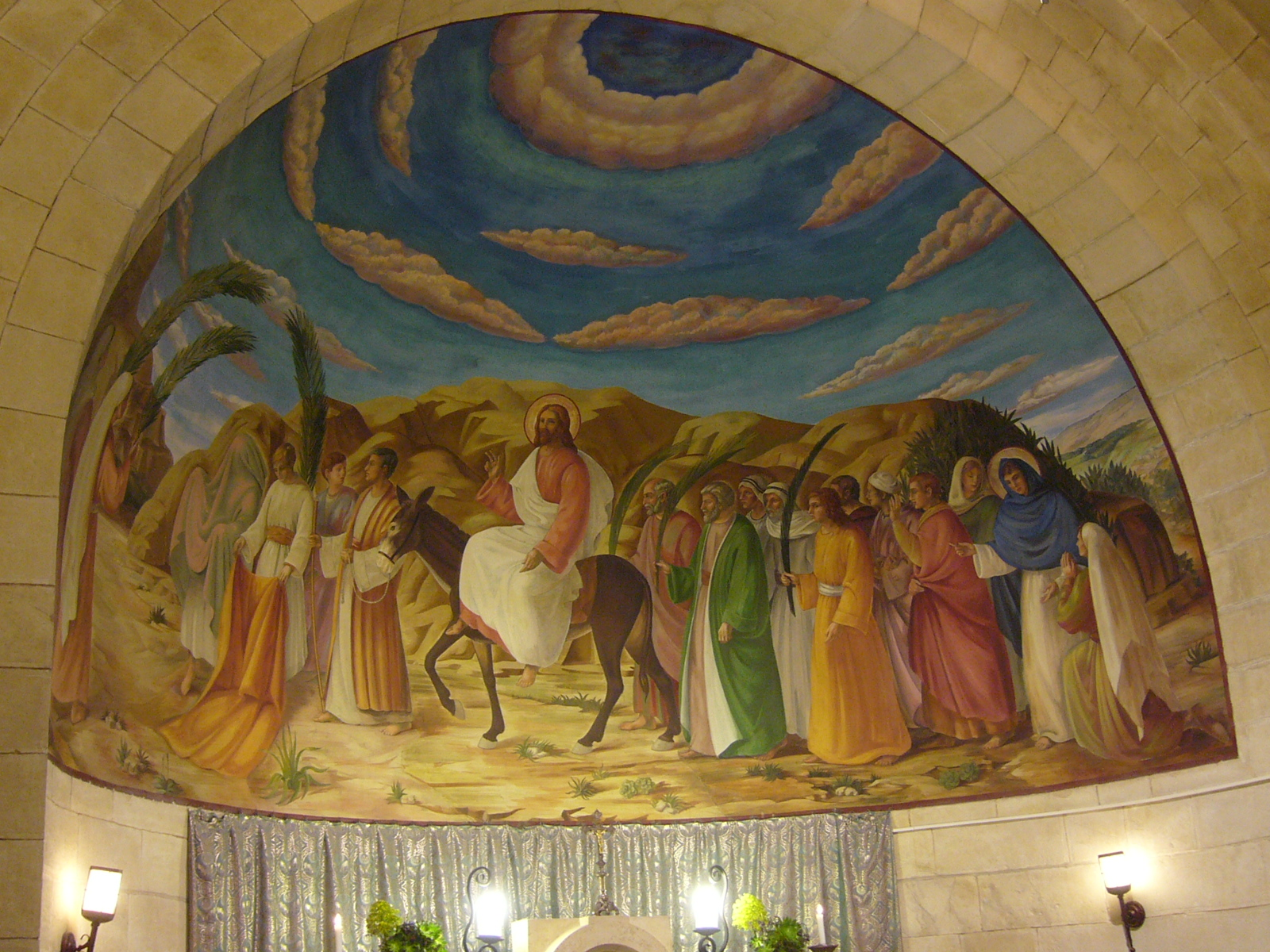 Apse of the Church of Bethphage, Israel.